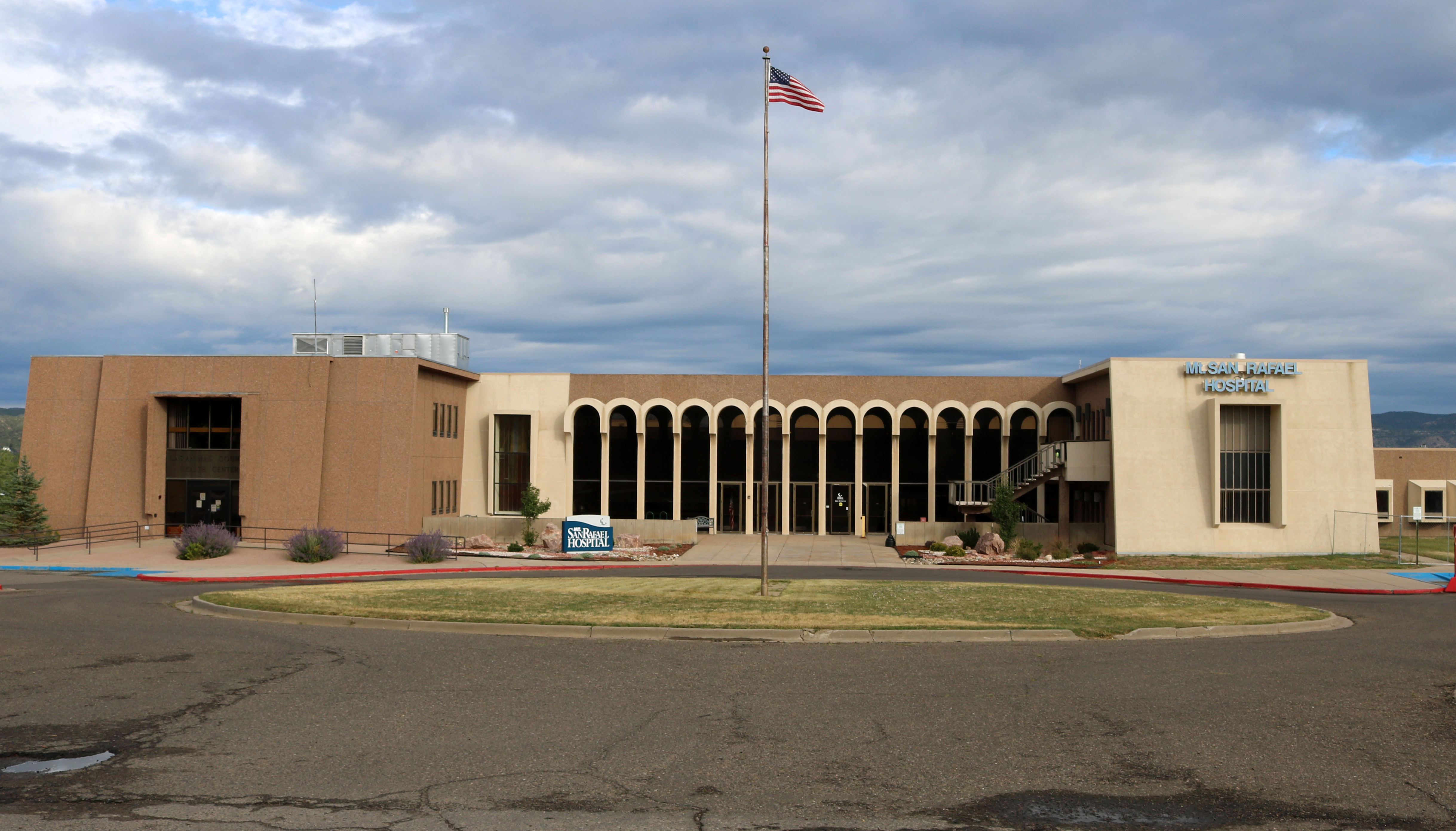 Mt. San Rafael Hospital, located at 410 Benedicta Avenue in Trinidad, Colorado.